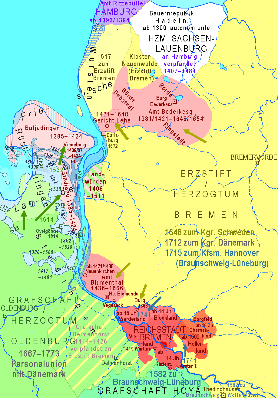 Territories of the Free City of Bremen in 14th to 18th centuries